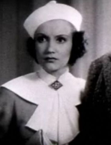 Screenshot of June Martel from the trailer for the film Going Highbrow